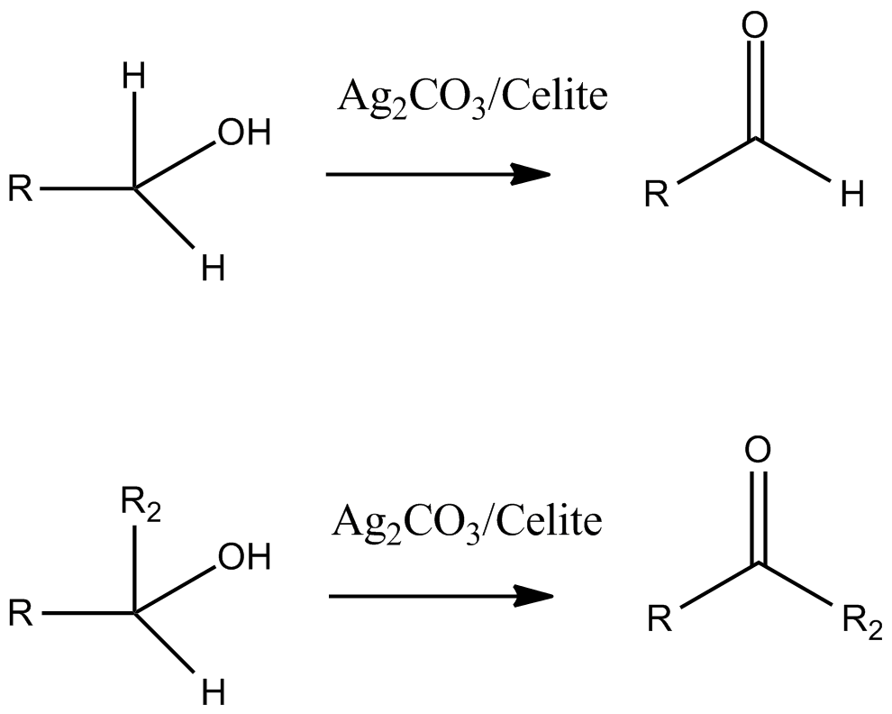 Under Fétizon oxidation conditions primary alcohols are oxidized to aldehydes and secondary alcohols are oxidized to ketones. Drawn with ChemBioDraw Ultra 12.0.2.